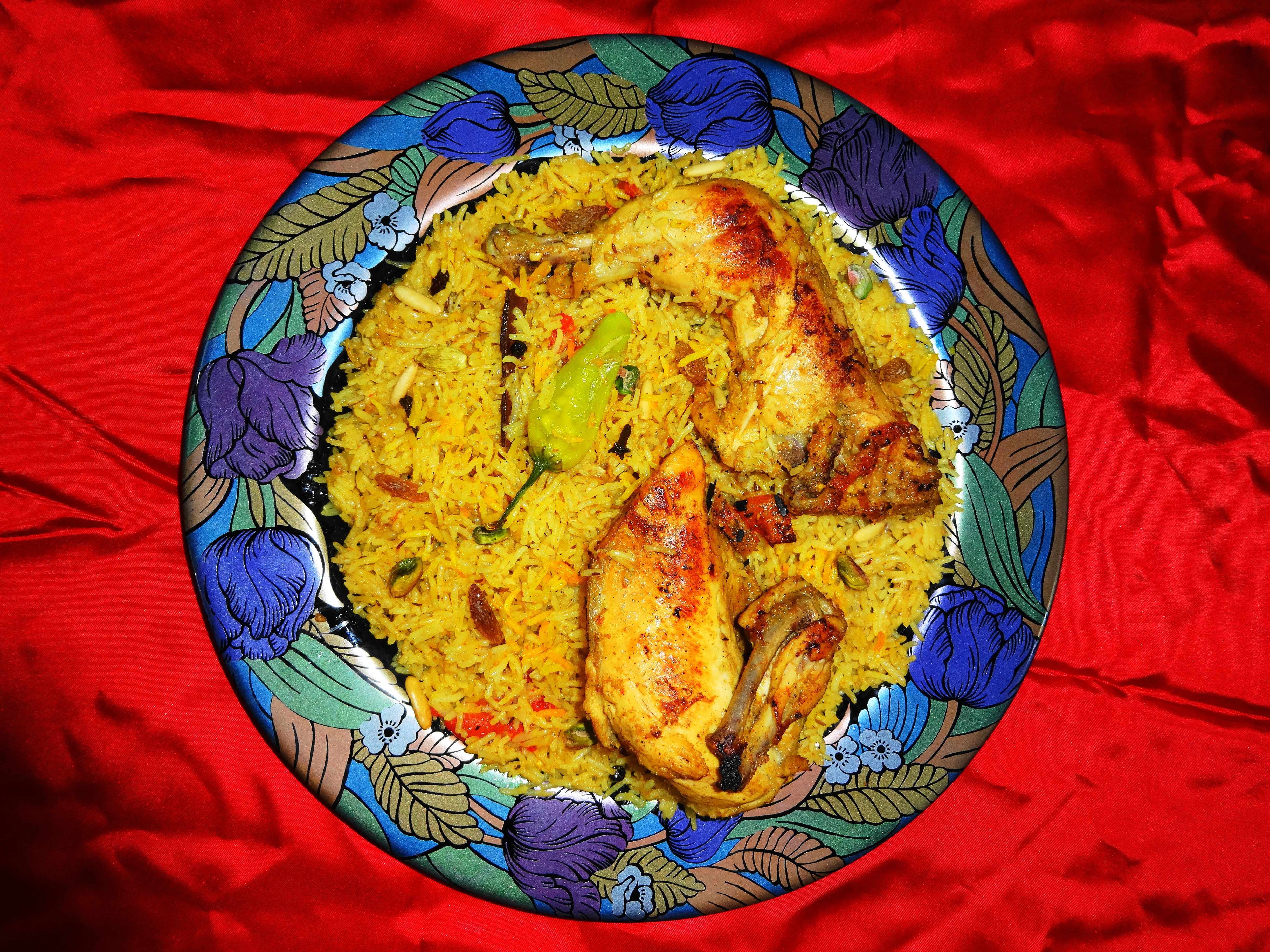 مندي دجاج, Chicken Mandi,Mandi Rice, Native to Yemen dish